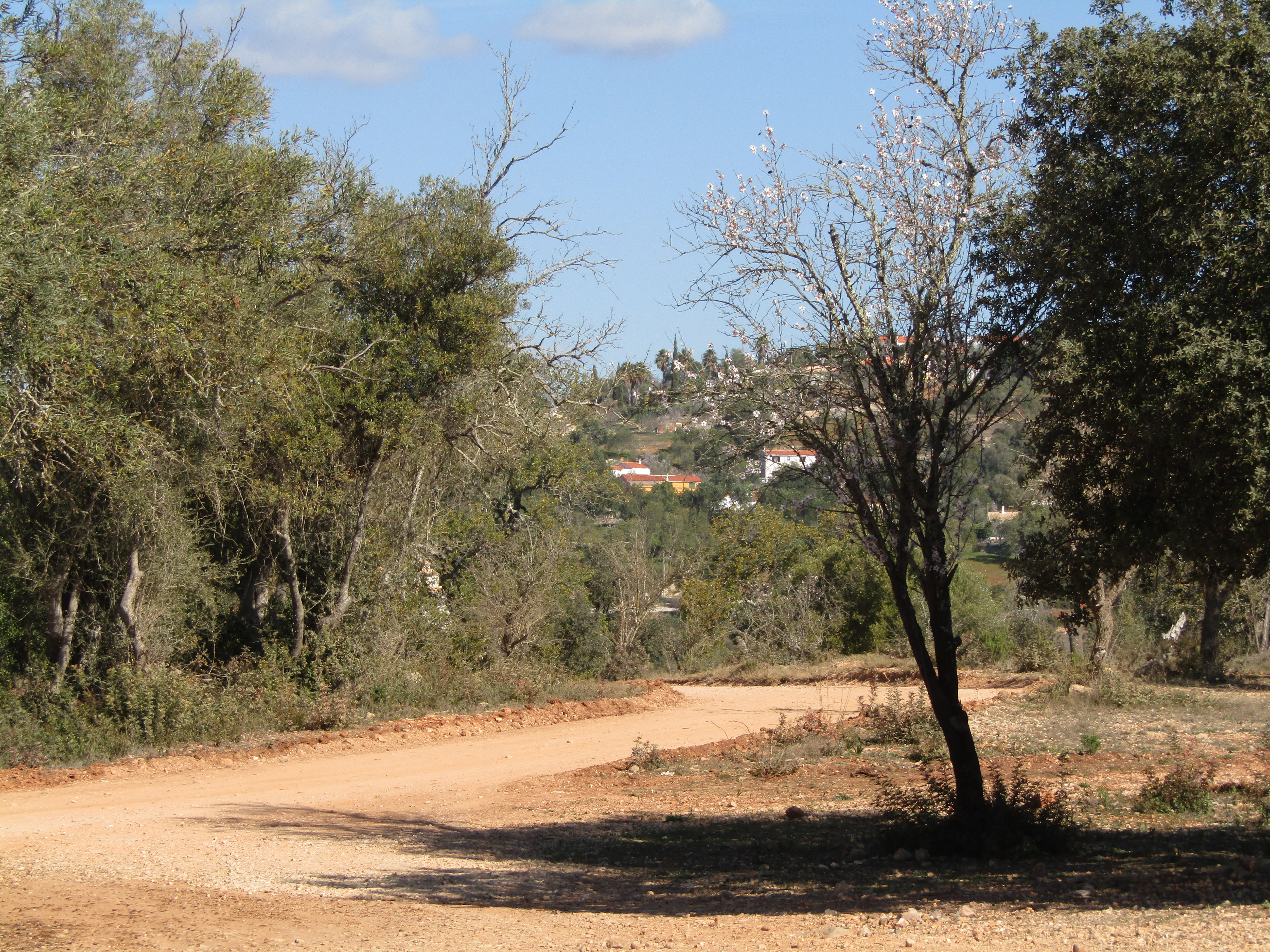 The access road leading up to Paderne Castle which is located south of the village of Paderne,Albufeira, Algarve, Portugal.